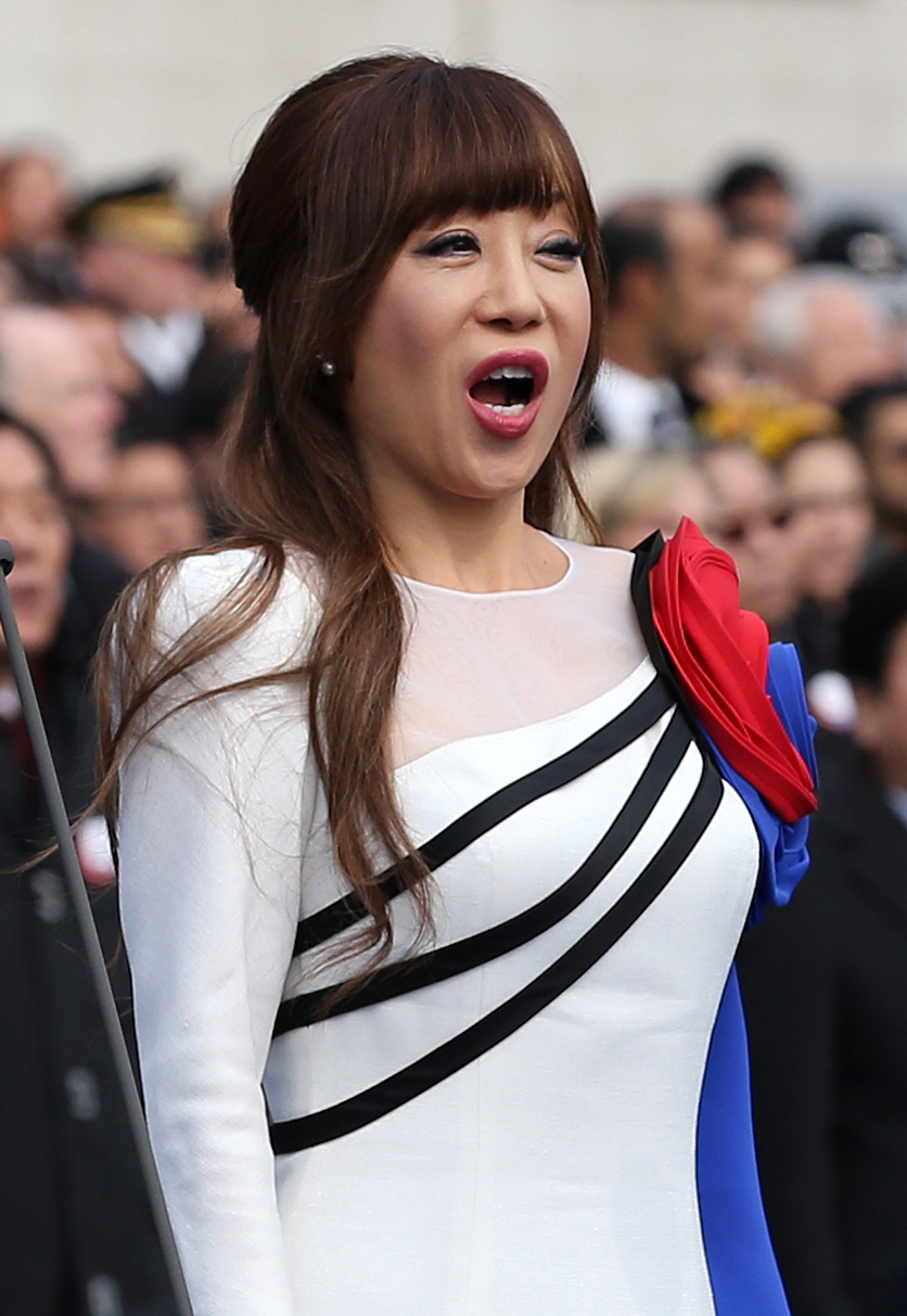 The inauguration ceremony for Park Geun-hye, South Korea's 18th, and first female, President.